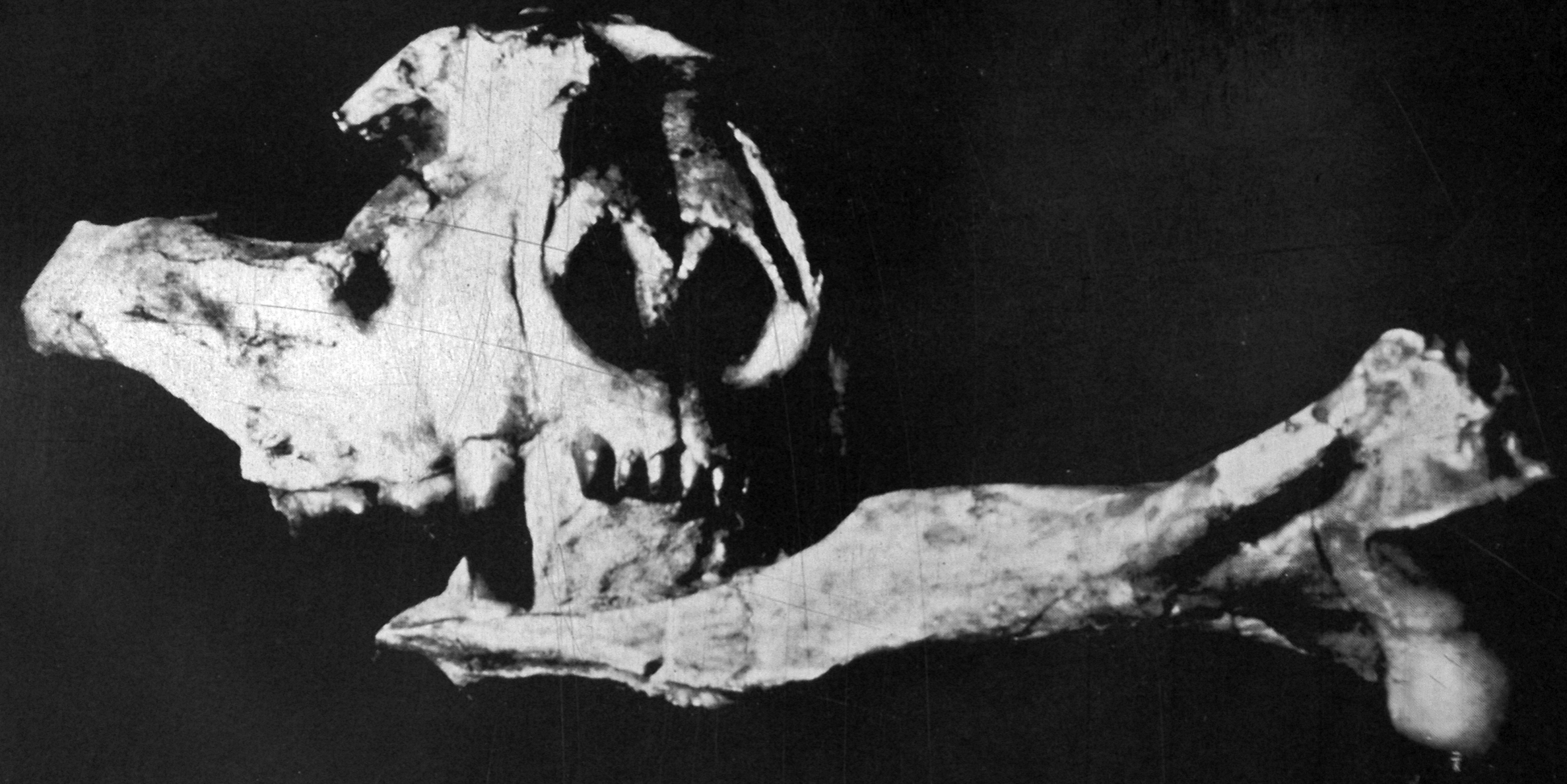 Nimravus major Lucas, 1898 - fossil false sabertooth mammal skull from the Oligocene of Nebraska, USA. (museum signage, Nebraska State Museum of Natural History, Lincoln, Nebraska, USA) This species is also known by other nomens, including Nimravus brachyops and Pogonodon brachyops. Museum info.: "Innocent Assassins A 25 million-year-old cat fight This remarkable specimen consists of the skull of an extinct cat-like predator with its canine tooth piercing the leg bone of another cat. It inspired Nebraska-born writer and scientists Loren Eiseley to compose a poem, The Innocent Assassins, which begins: Once in the sun-fierce badlands of the west in that strange country of volcanic ash and cones, . . . we found a saber tooth, most ancient cat, far down in all those cellars of dead time. Eiseley was a member of the museum field party that discovered this fossil in Black Hank Canyon in 1932. " Classification: Animalia, Chordata, Vertebrata, Mammalia, Carnivora, Nimravidae Stratigraphy: Gering Formation, Upper Oligocene Locality: Black Hank Canyon (Black Hank's Canyon), south of the town of Bayard & ~3 miles west of Redington Gap, Wildcat Hills, western Morrill County, western Nebraska, USA See info. at